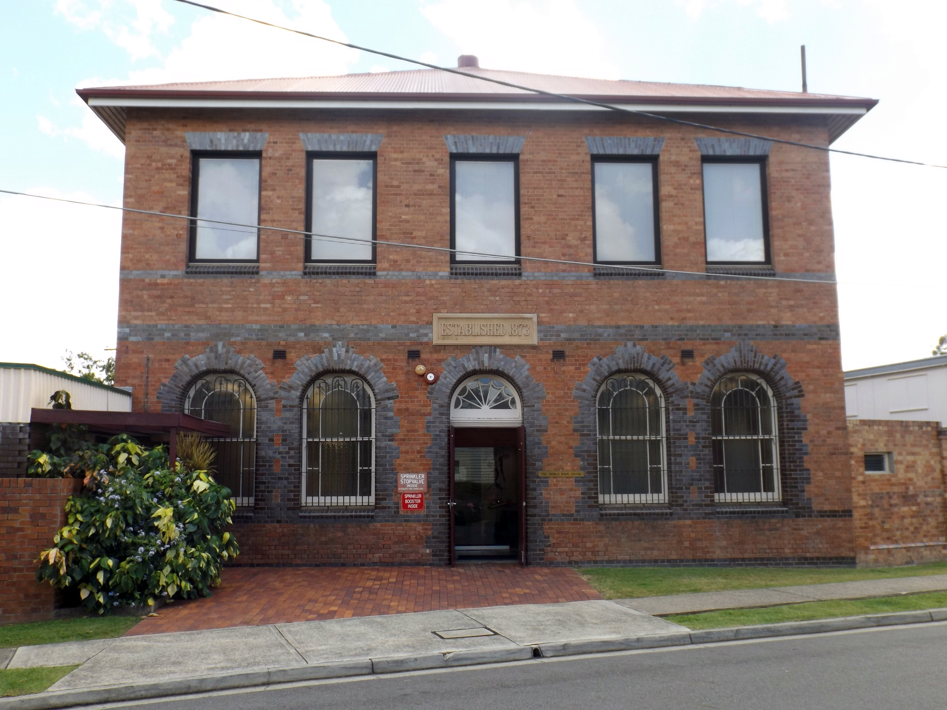 Photo of Thomas Dixon Centre from Drake Street in West End, Brisbane, Queensland, Australia.